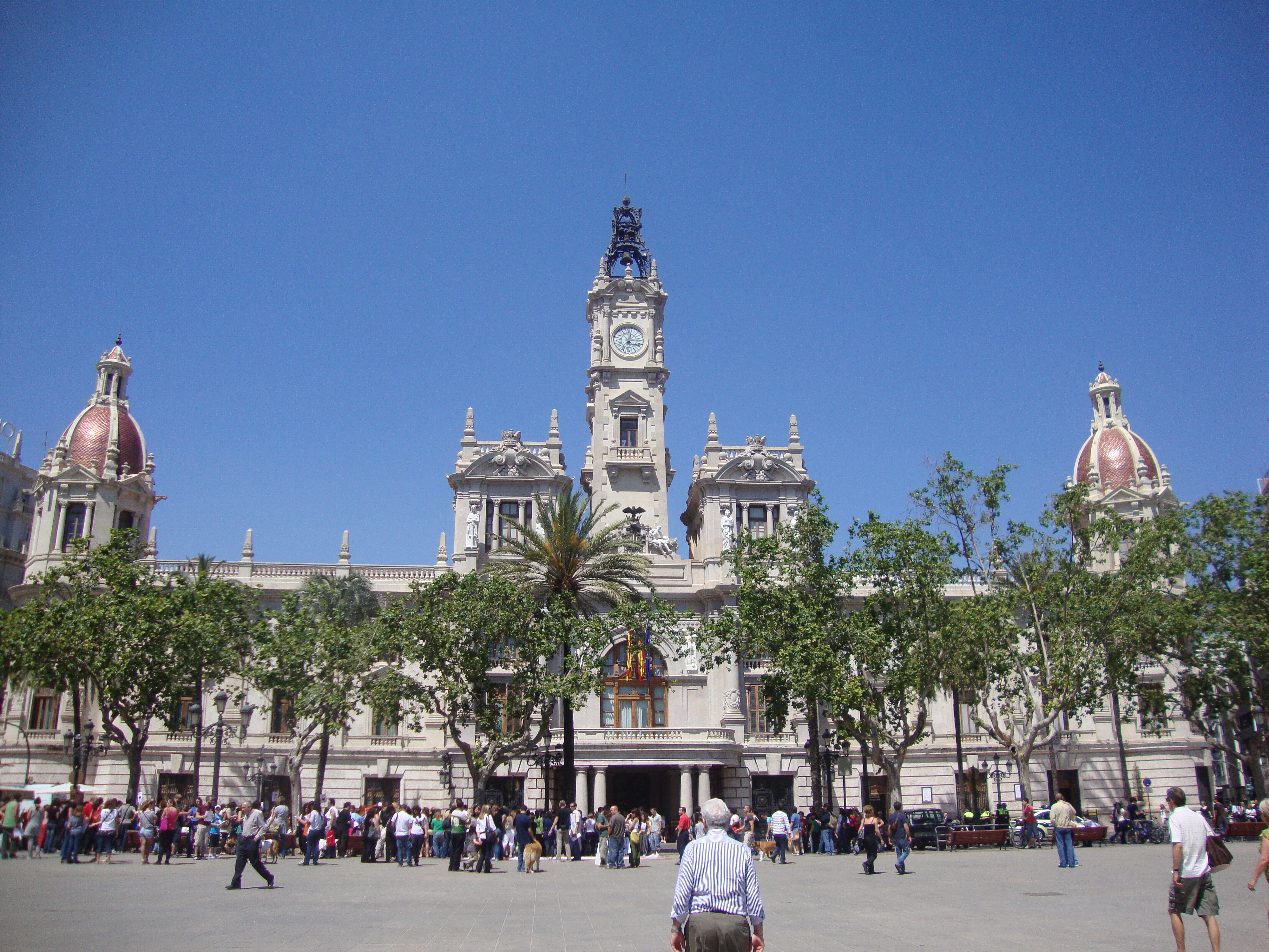 Valencia's town hall(Spain)